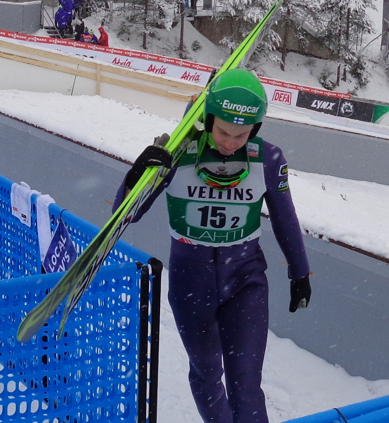 Finnish nordic combined skier Matti Herola during the Lahti Ski Games 2016.